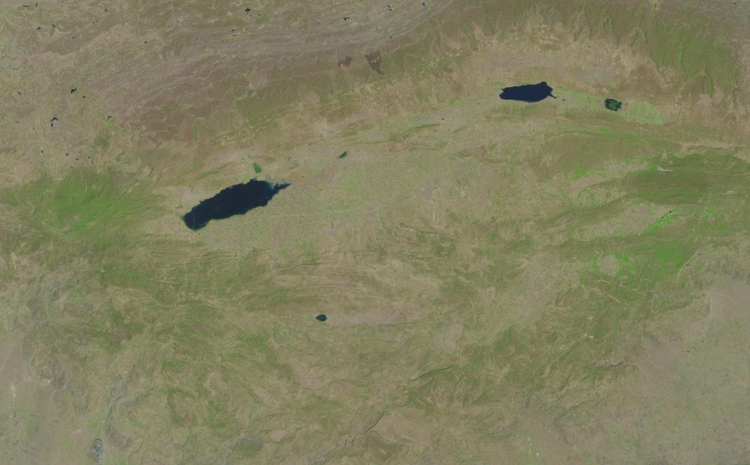 This natural image captured by Landsat 8 shows Uchhali Wetlands Complex in Soon Valley (also known as Soon Sakesar Valley) in Salt Range of Pakistan. The image acquired on May 17, 2016, shows three lakes (Uchhali Lake, Khabbeki Lake & Jahlar Lake) comprising this complex. It is one of the 19 Ramsar designated sites in Pakistan.